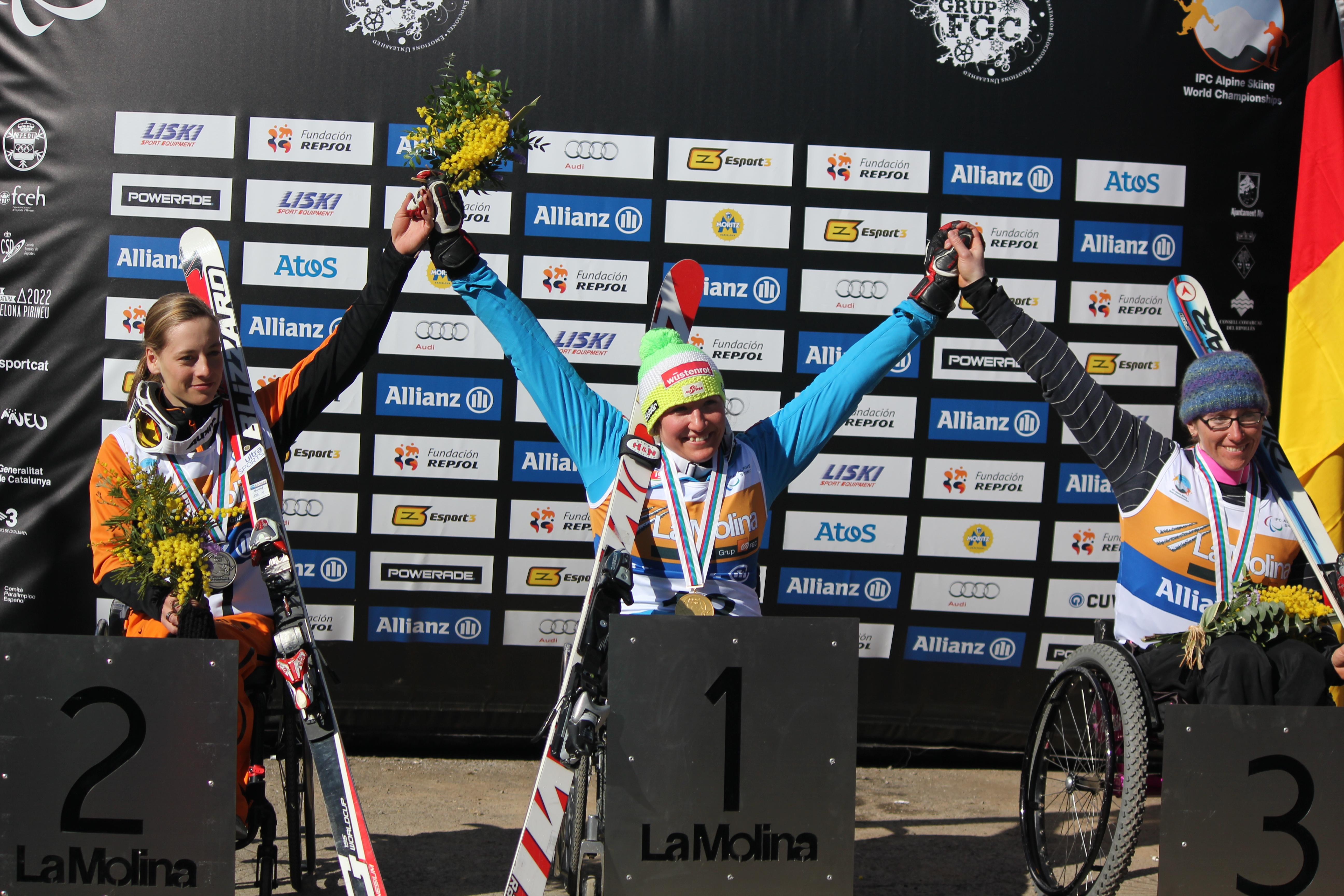 Claudia Loesch (gold), Anna Schaffelhuber (silver) and Laurie Stephens (bronze). 2013 IPC Alpine World Championships award ceremonies.